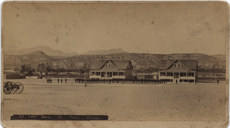 Title: Fort Bliss, El Paso, Texas Creator: Parker, Francis F. Date: ca. 1885 Part Of: Lawrence T. Jones III Texas photography collection Physical Description: 1 photographic print: albumen; 9.3 x 17.4 cm. on 10.2 x 17.8 cm. mount File: ag2008_0005_4_2_2_02_r_fort_opt.jpg Rights: Please cite Southern Methodist University, Central University Libraries, DeGolyer Library when using this image file. A high-quality version of this file may be obtained for a fee by contacting . For more information, see: View the Lawrence T. Jones III Texas Photographs at